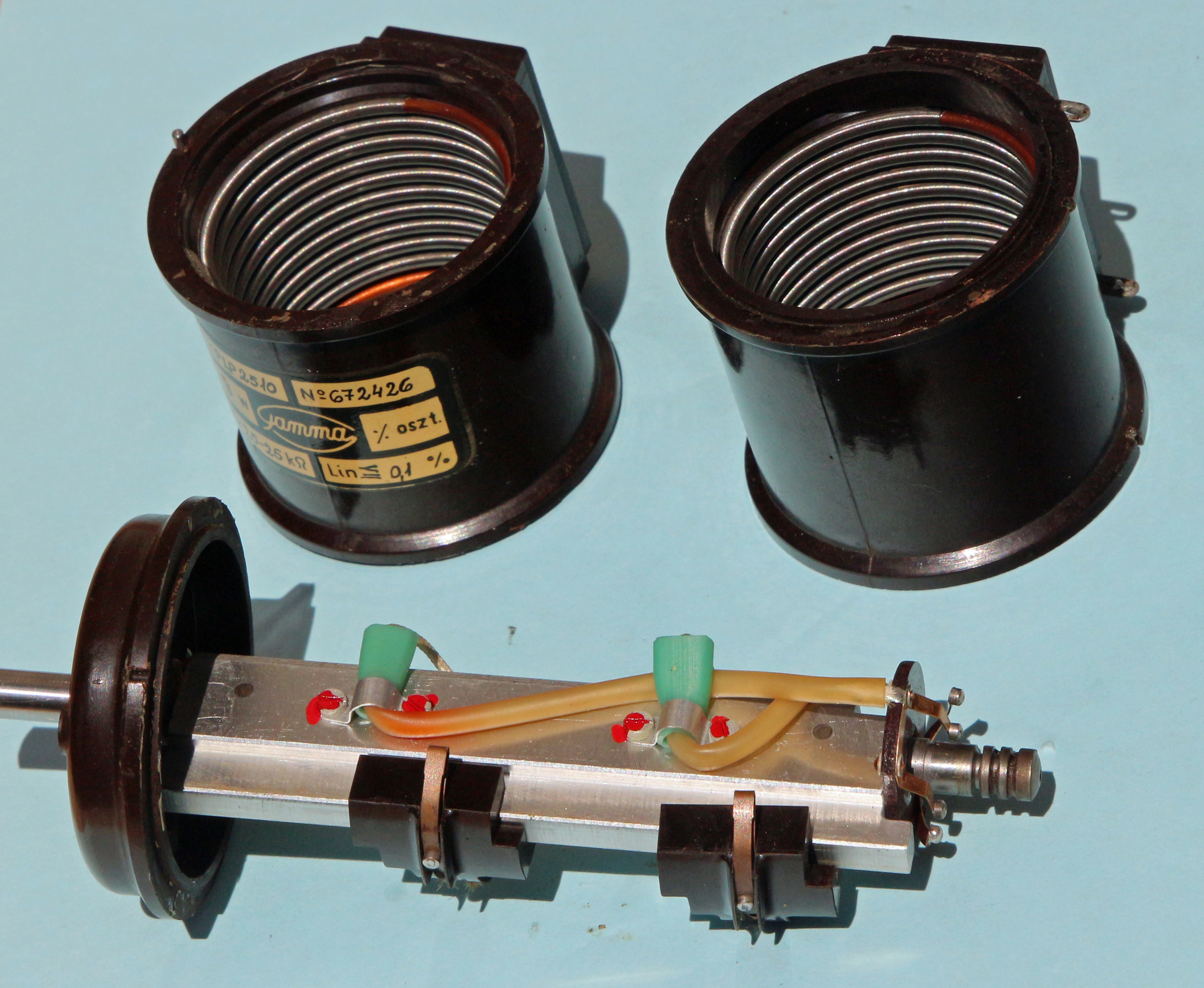 10 turn tandem helipot (disassembled, sliders in front), producer: Gamma, Budapest (founded 1920)